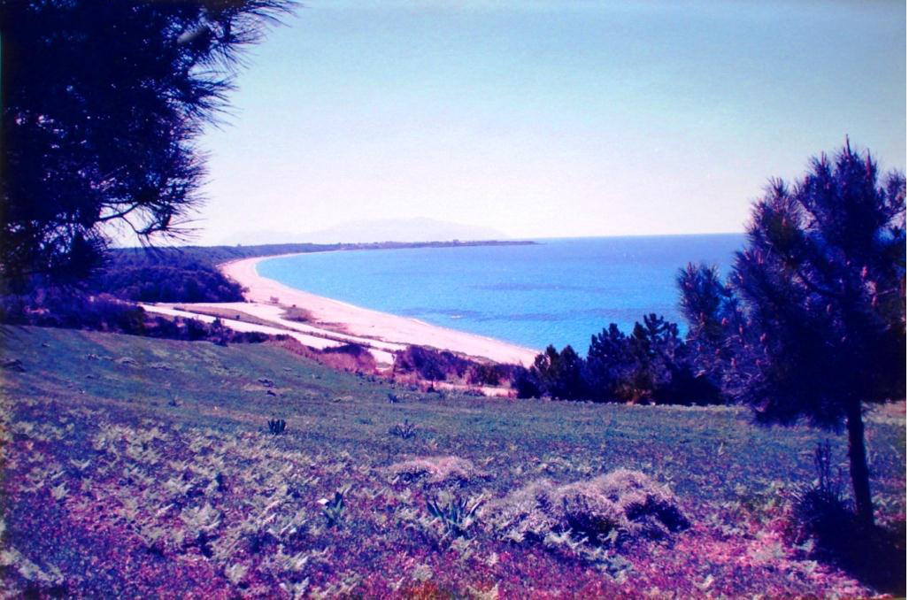 Monolithi beach from Koukos hill